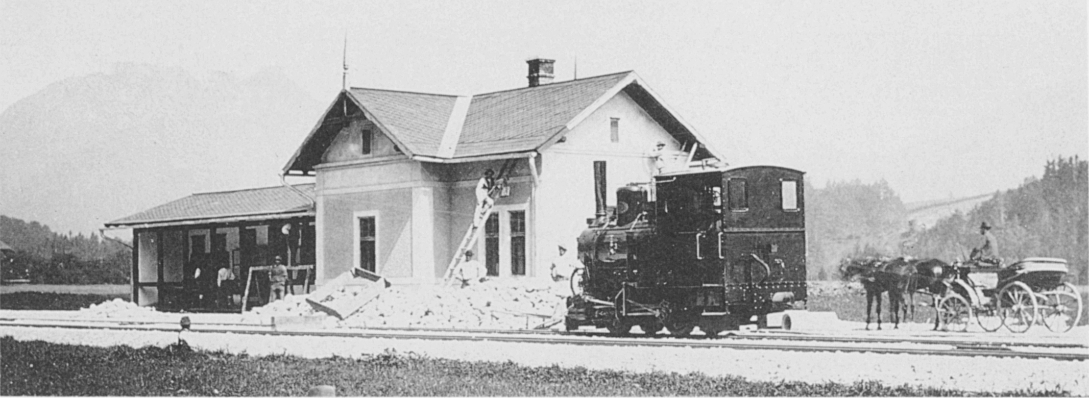 Aigen-Vogelhub station on the Salzkammergut-Lokalbahn with engine No.1 during construction of the line in July 1890.